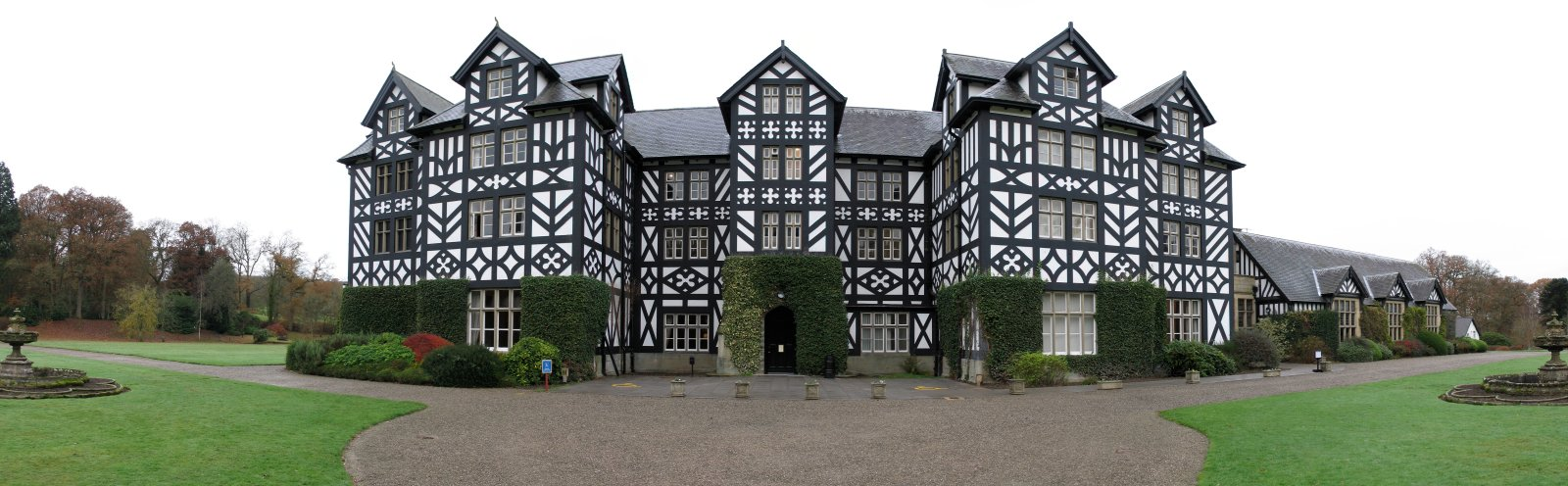 Equirectangular projection of Gregynog House